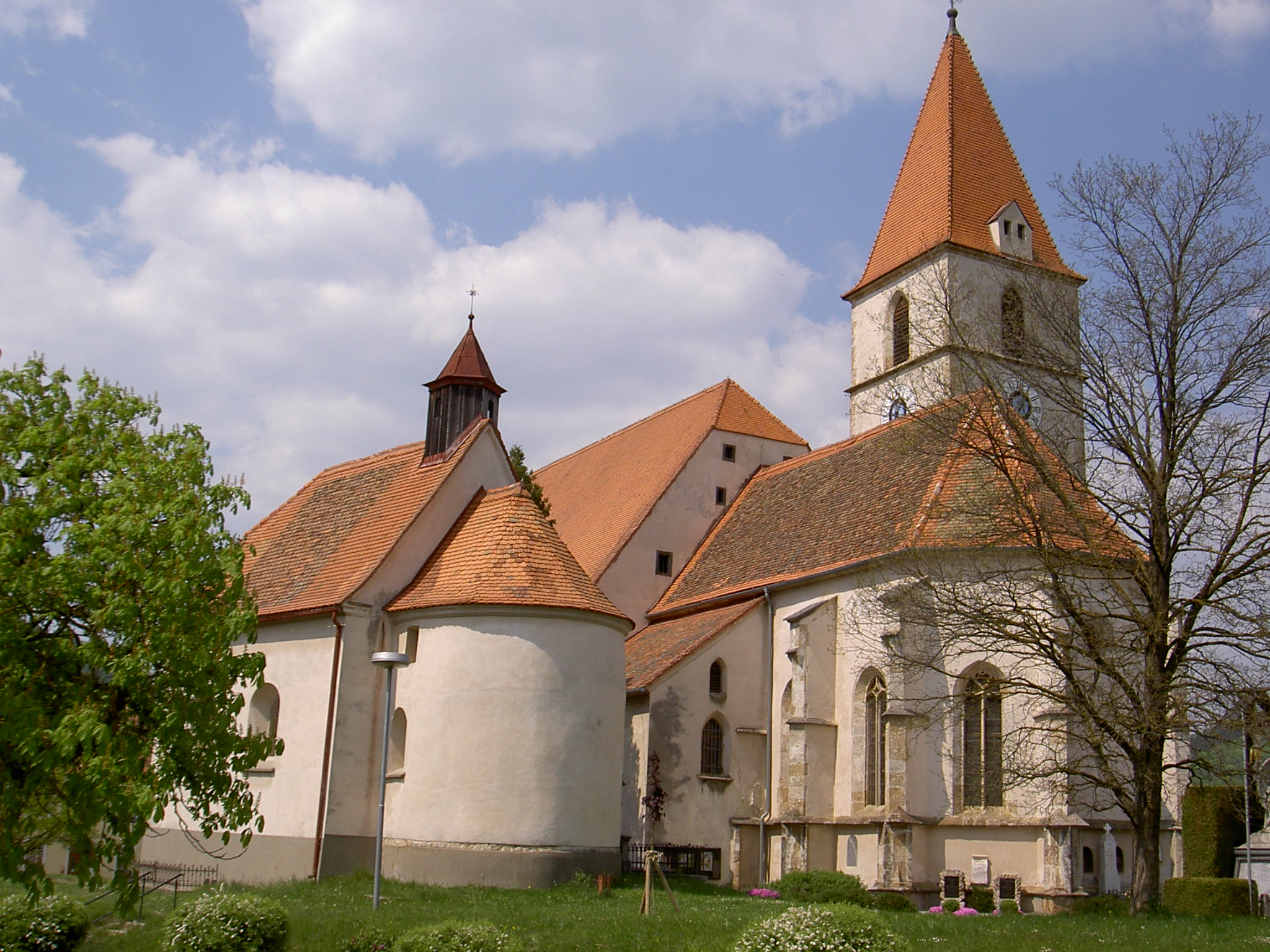 Church of Semriach, Styria, Austria. To the left the cemetery chapel.